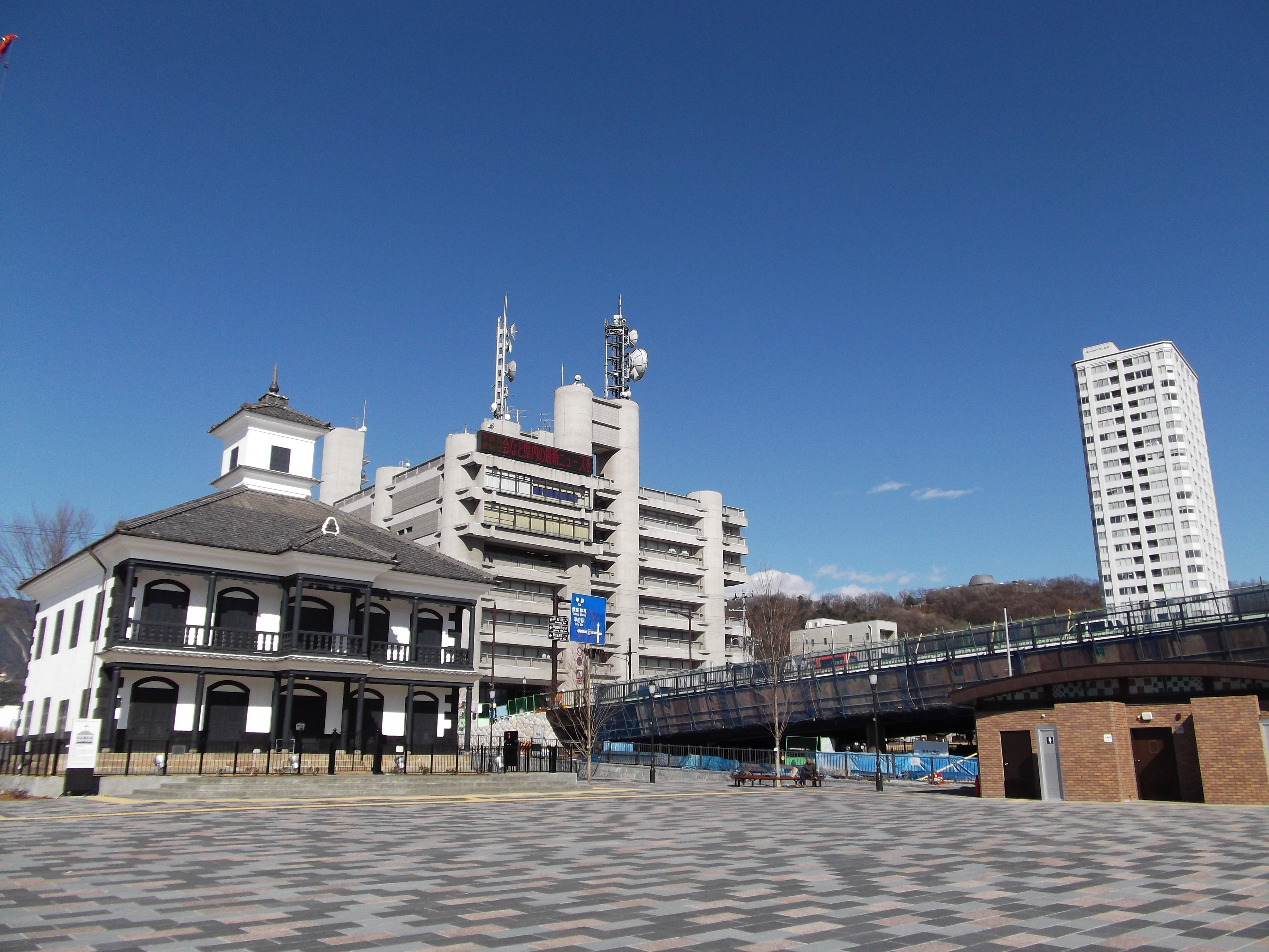 see below This work has been released into the public domain by its author, Halowand. This applies worldwide. In some countries this may not be legally possible; if so: Halowand grants anyone the right to use this work for any purpose, without any conditions, unless such conditions are required by law.